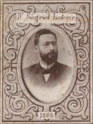 Photo of Siegfried Lederer (1861–1911) from a book by him published in 1889.